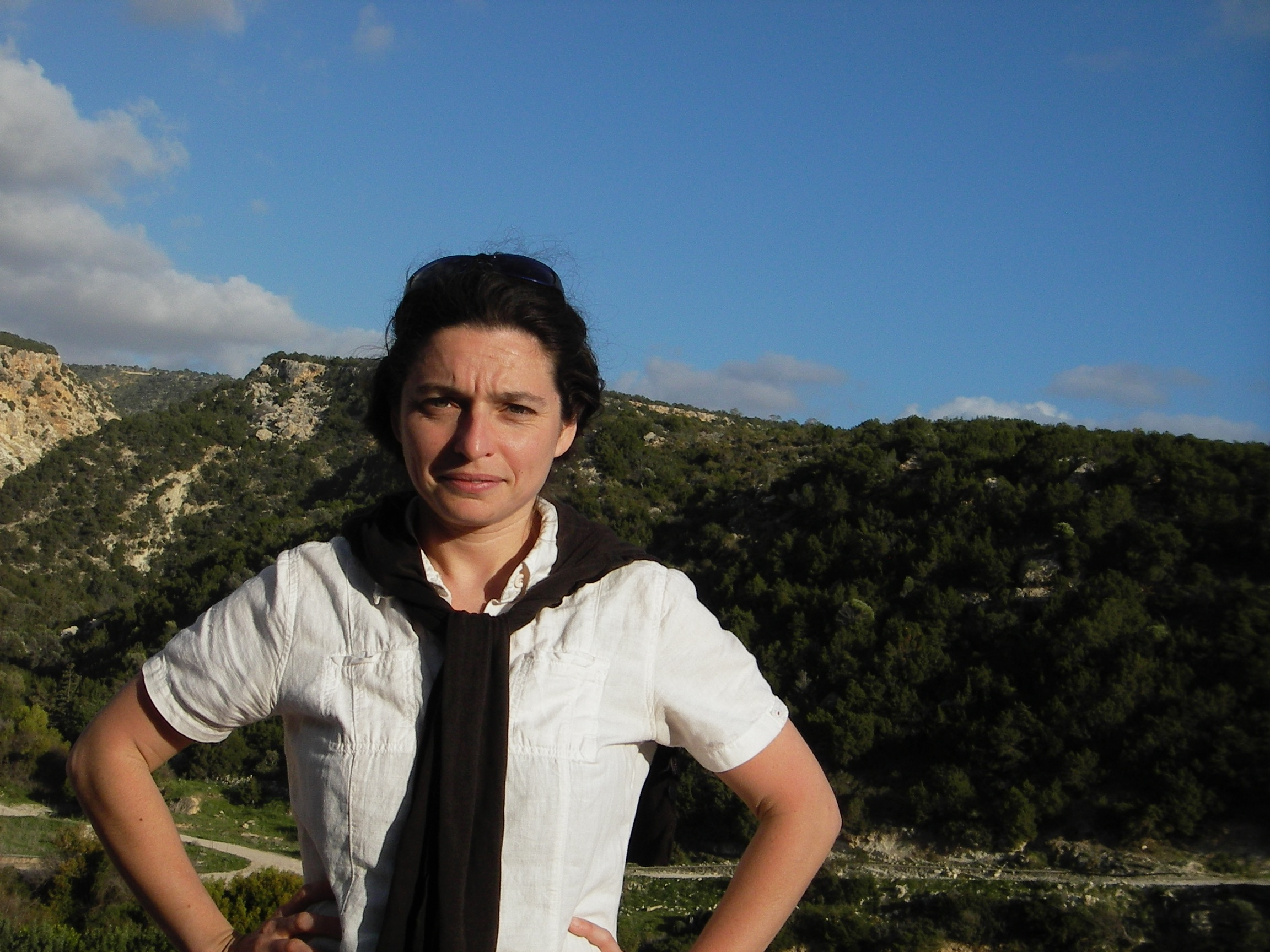 Visiting Turkey with students and colleagues 2008